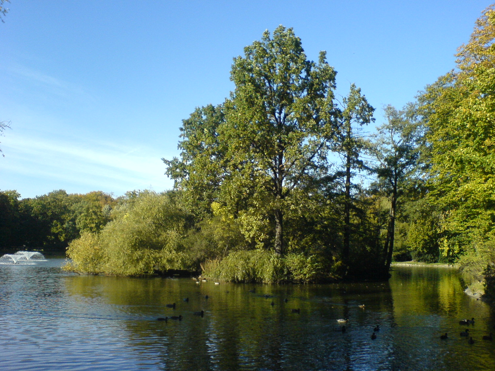 South Park in Wrocław, pond in park